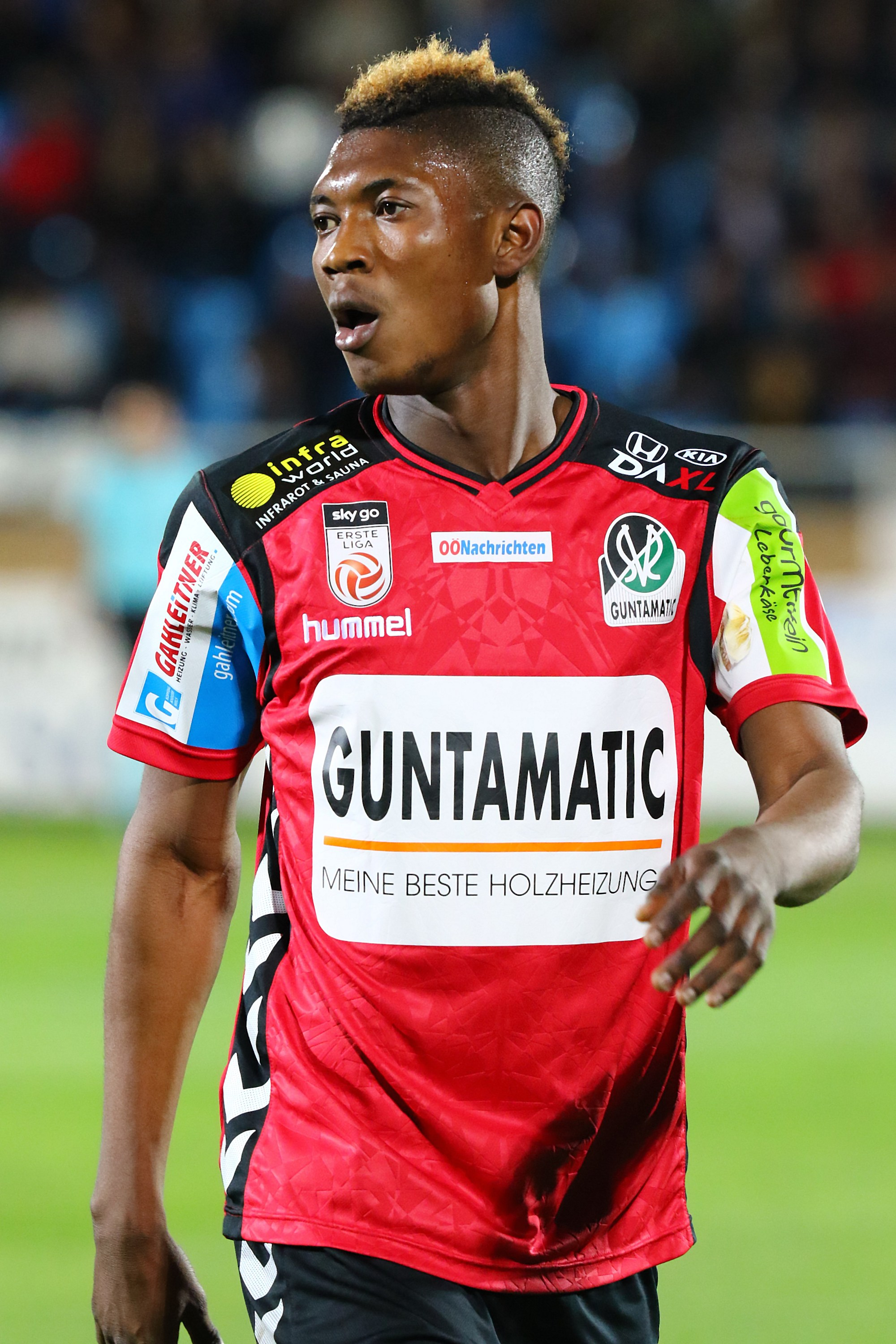 Football-championship Erste Liga 2017–18 - SC Wiener Neustadt (white shirts) vs. SV Ried (red shirts) 1-0. – The photo shows Kennedy Boateng